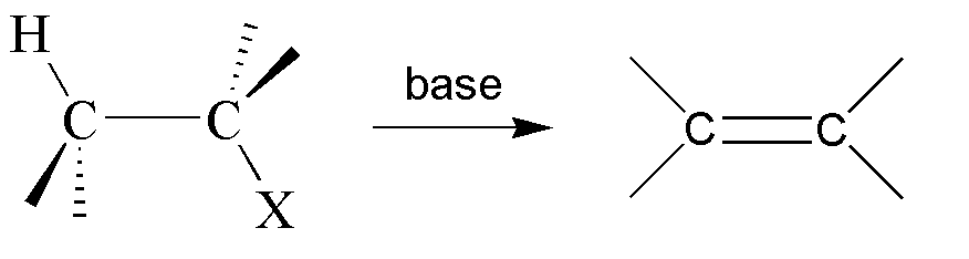 Dehydrohalogenation to synthesize alkene